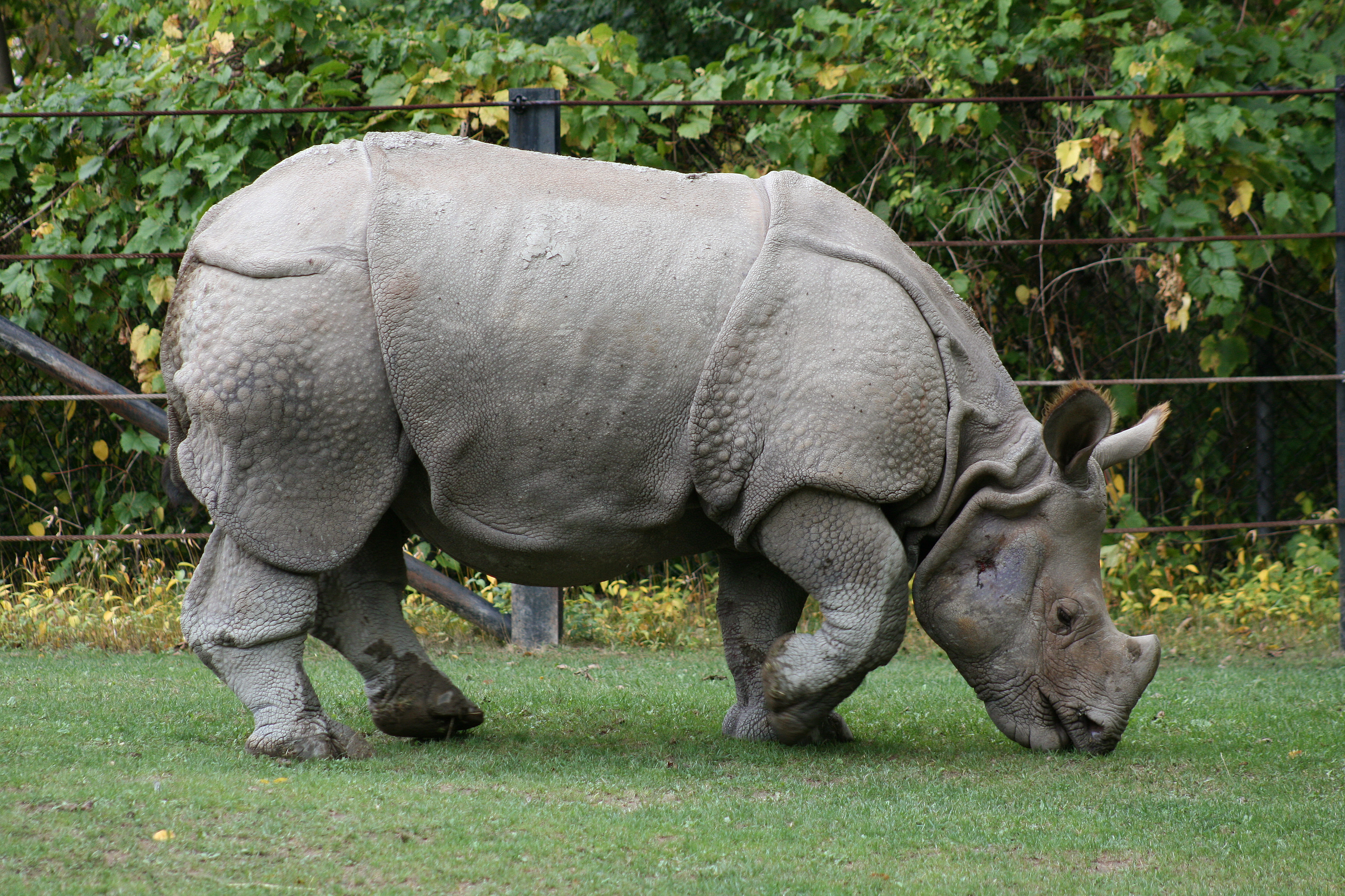 Indian Rhino (Rhinoceros unicornis) at the Metro Toronto Zoo.